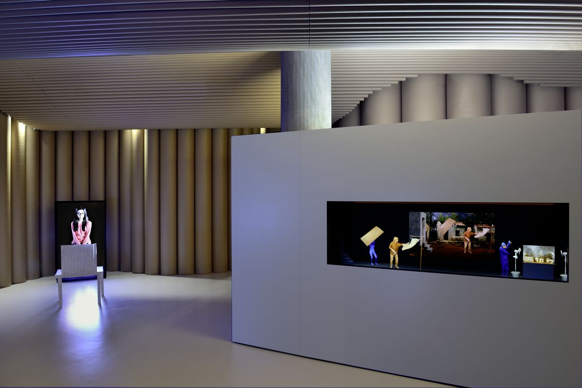 Pierrick Sorin: Cyclone, théâtre optique, 2013 (right) Architect: Shigeru Ban © MICR, photo Alain Germond